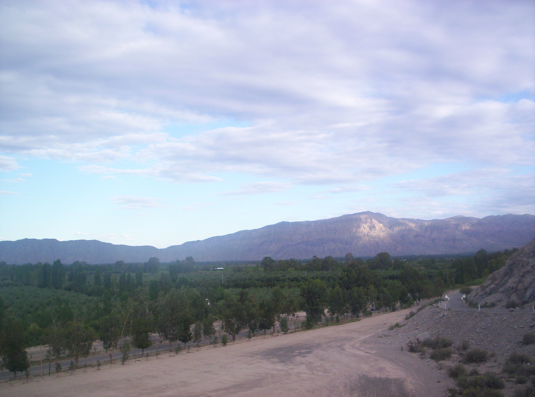 Photograph showing an overview of the Valley Zonda was taken from the top of Cerro Blanco in the province of San Juan Argentina